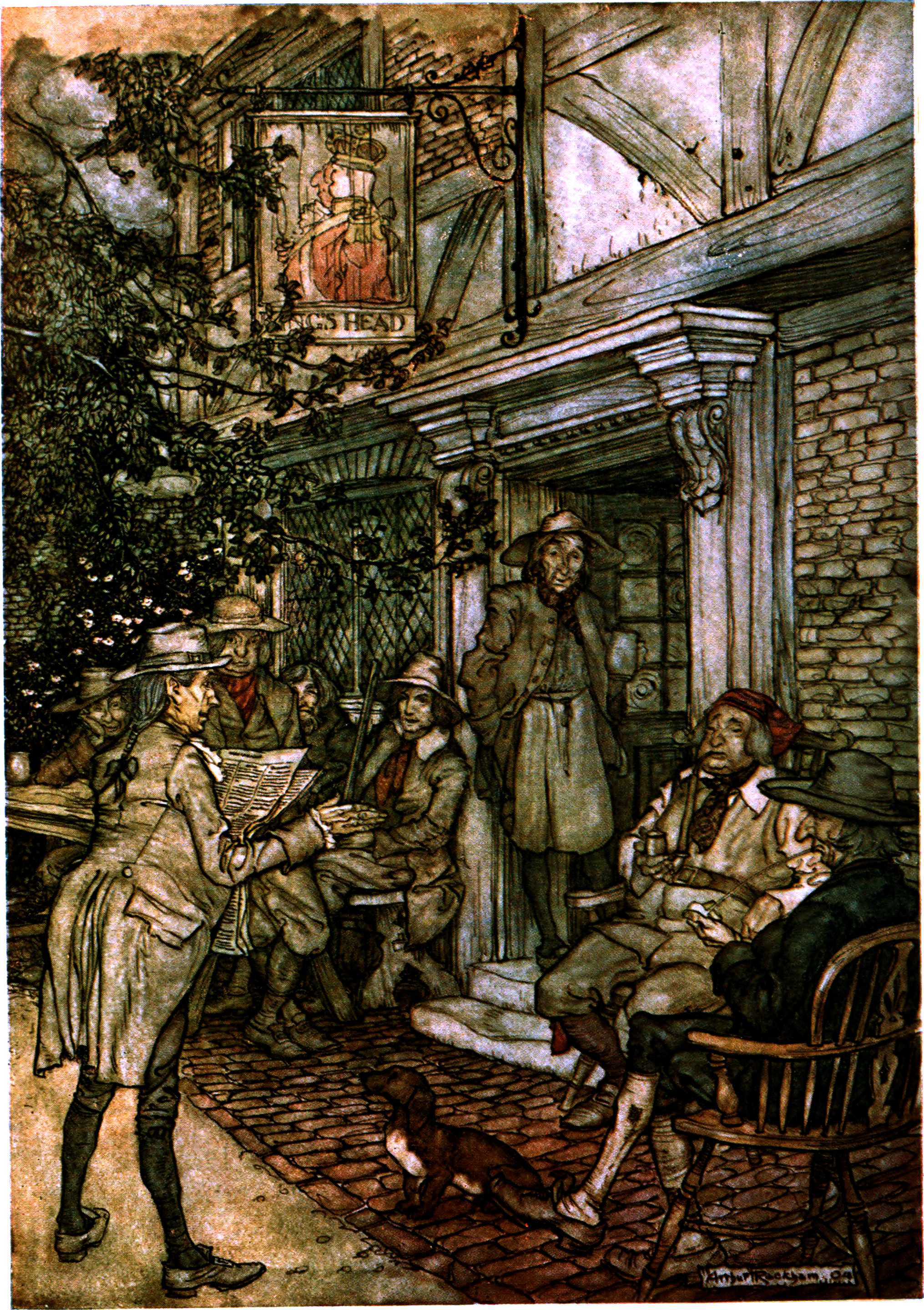 Image from Rip Van Winkle